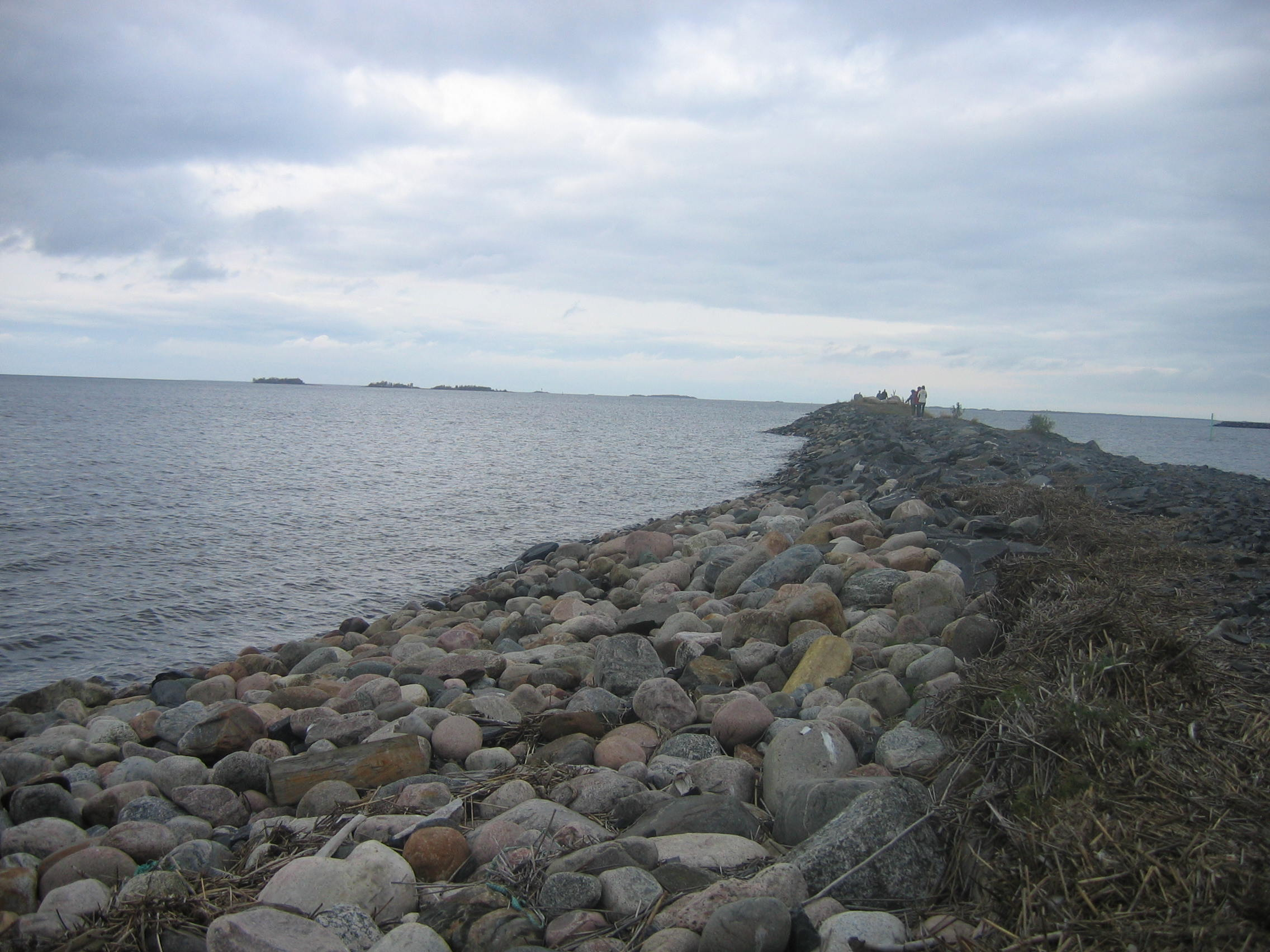 A breakwater in Toppilansaari, Oulu, Finland.